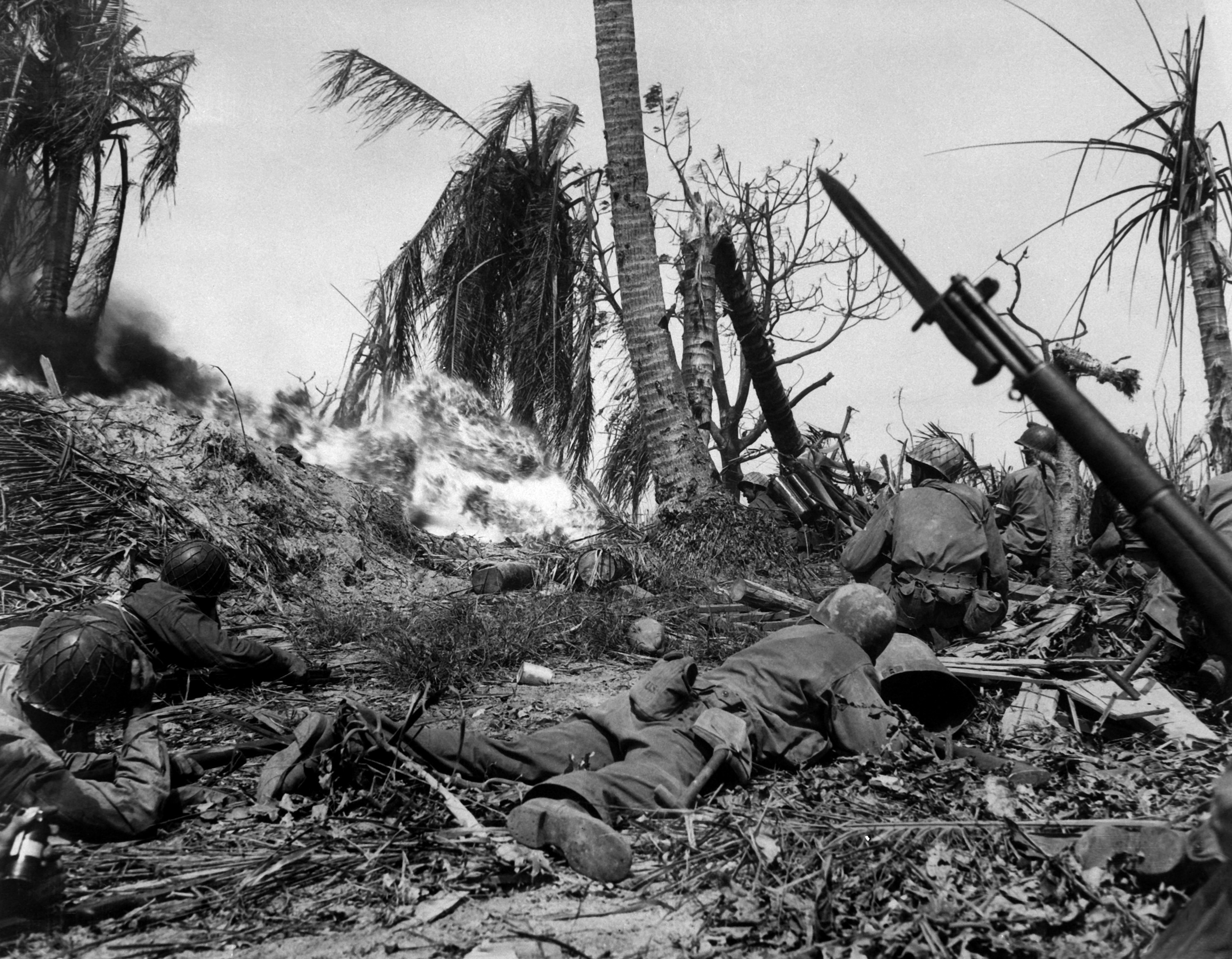 Men of the 7th Div. using flame throwers to smoke out Japs from a block house on Kwajalein Island, while others wait with rifles ready in case Japs come out. February 4, 1944. Cordray. (Army) NARA FILE #: iii-SC-212770 WAR & CONFLICT BOOK #: 1187